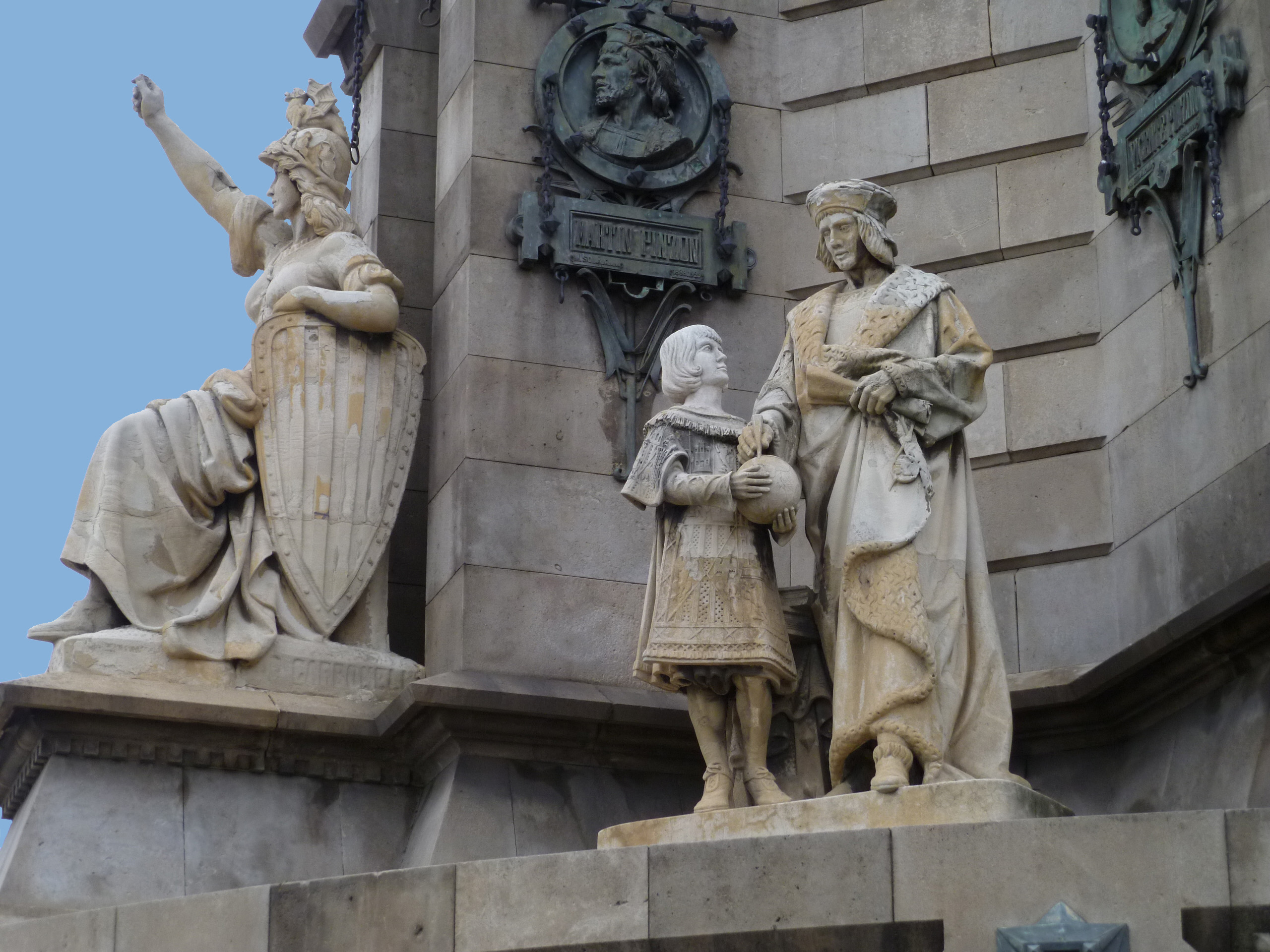 Columbus Monument : Jaume Ferrer de Blanes, a Catalan cartographer; medaillon of Martín Alonso Pinzón; Barcelona, Catalonia, Spain